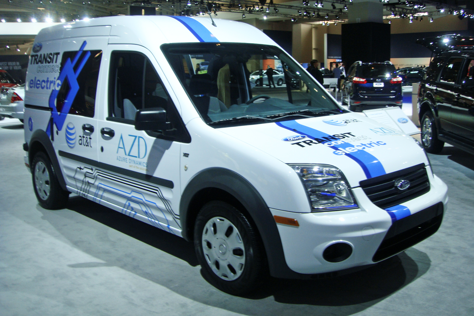 Ford Transit Connect Electric exhibited at the 2011